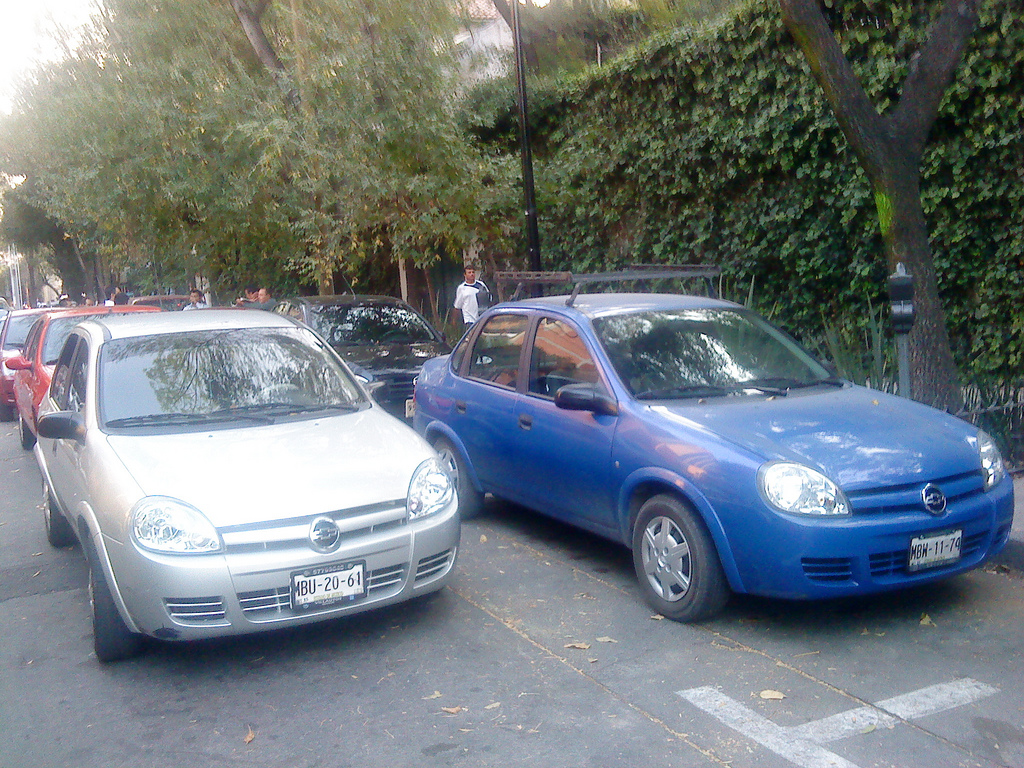 A couple of 4 door Chevy C2 in Mexico City